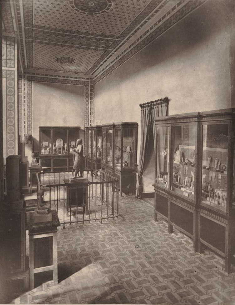 The central hall of the museum, with views of funerary objects. Black-and-white photograph.